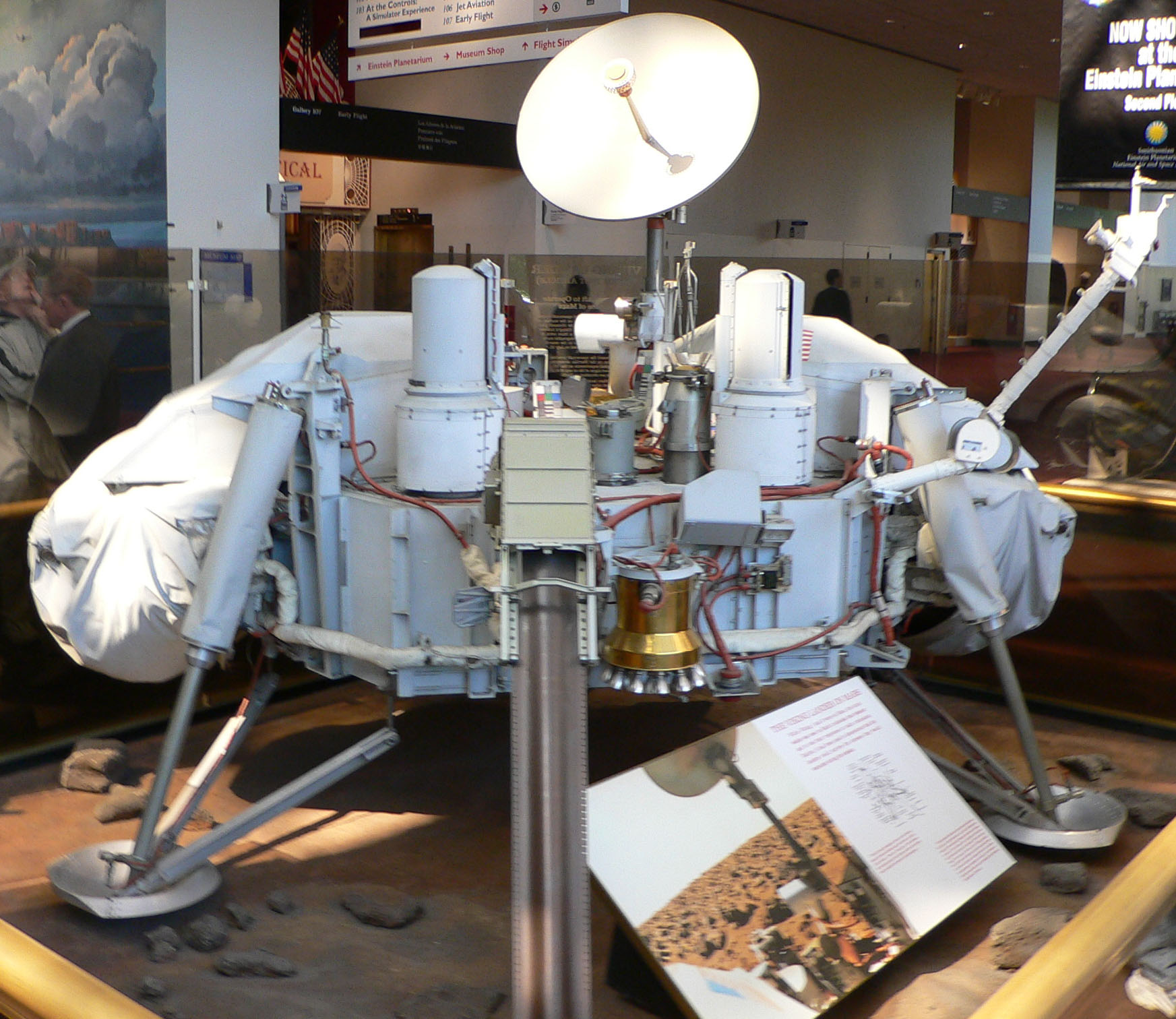 Viking lander proof test article in the National Air and Space Museum, Smithsonian Institute, Washington, D.C.